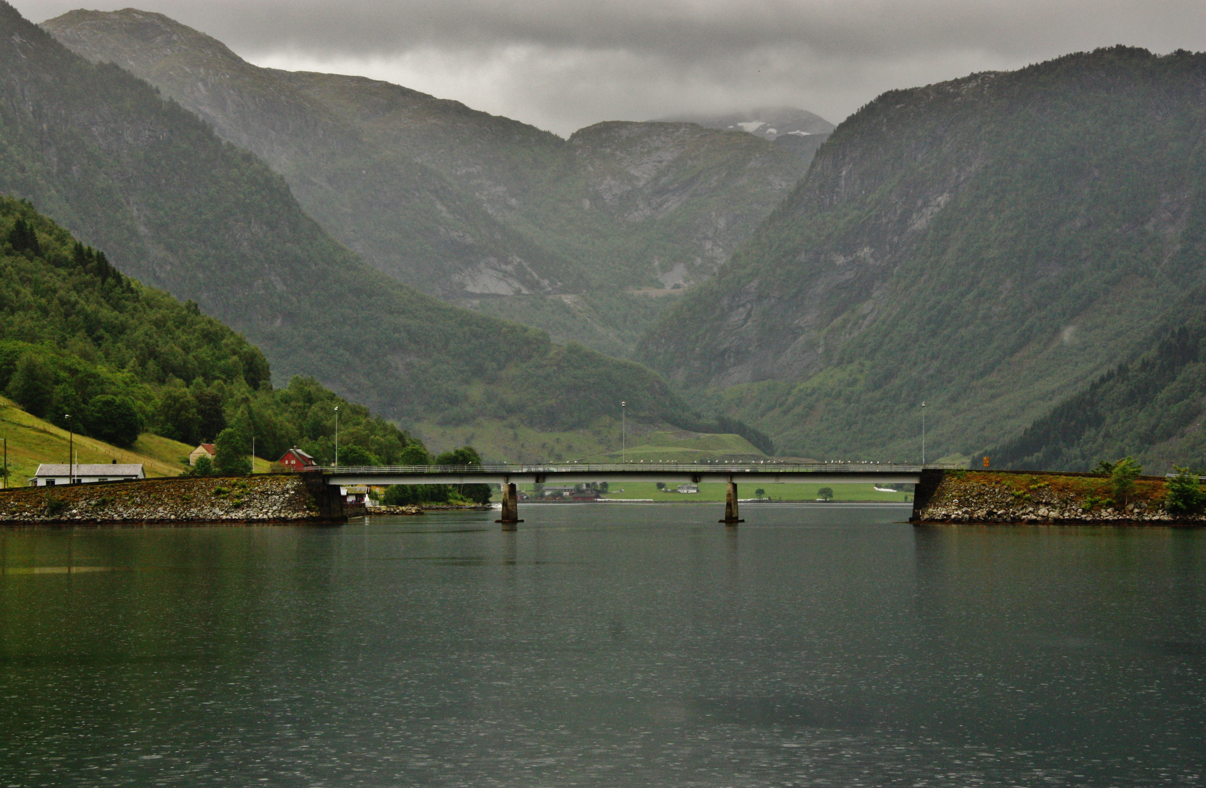 Føsund Bridge over Fuglset Fjord in Bjordal, Høyanger, Sogn og Fjordane, Norway.